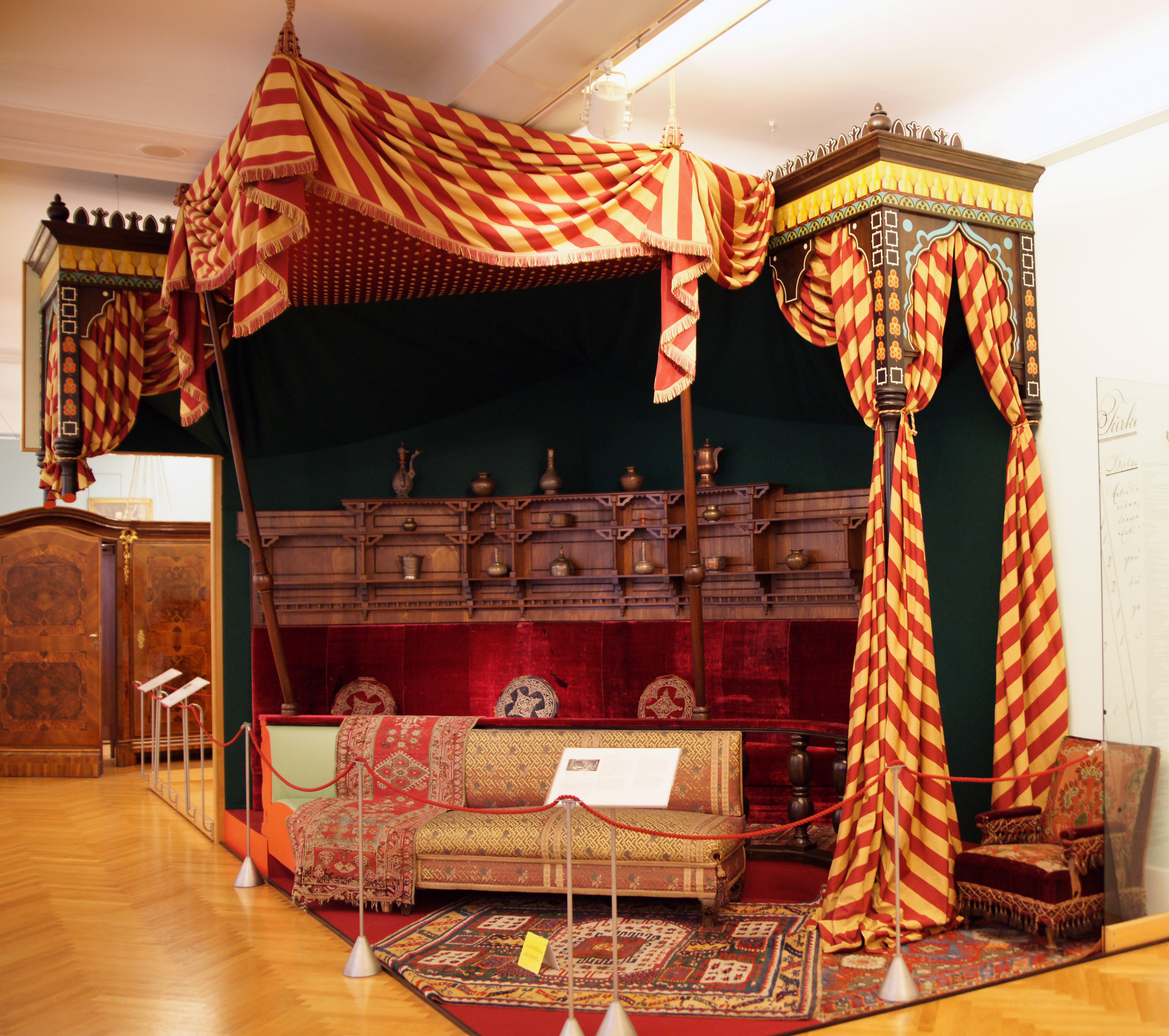 Part of the "Turkish Room", the private working room of Crown Prince Rudolf of Austria, which comprised 151 objects such as armchairs, divans, carpets etc.